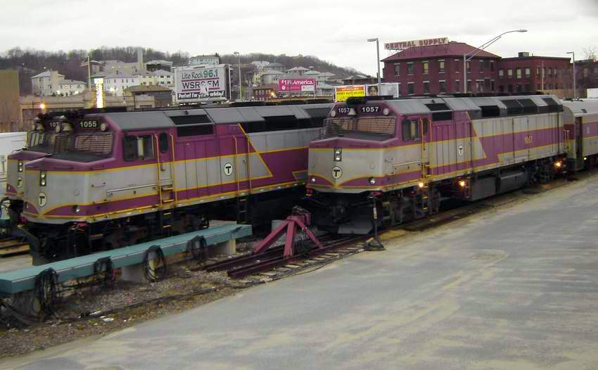 MBTA locomotives in the layover yard near Worcester Union Station